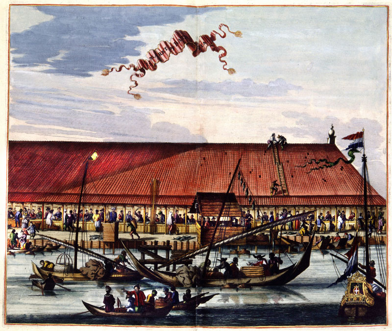 The 17th century fish market of Batavia, now demolished.